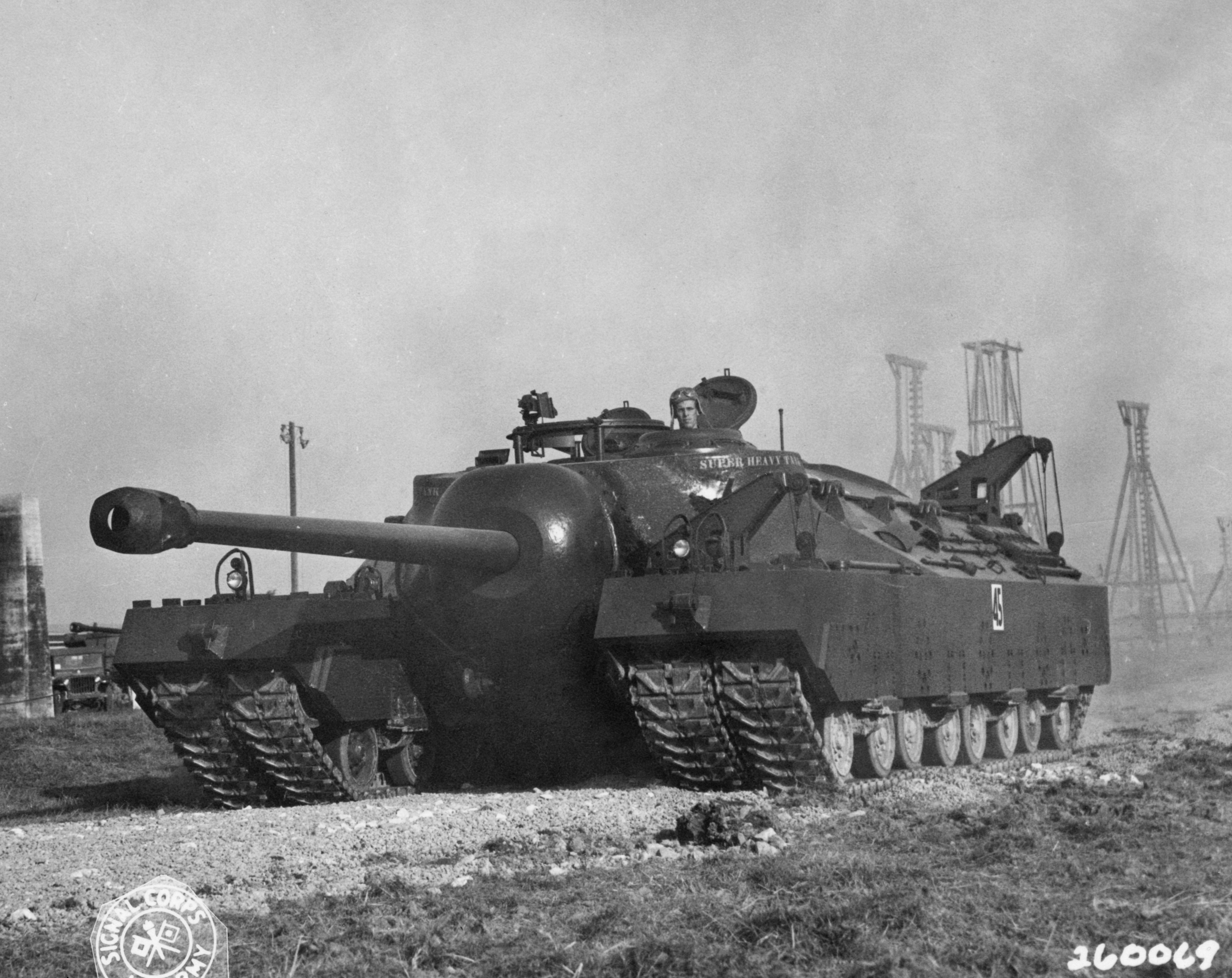 T28 Tank - Aberdeen Proving Ground Demo